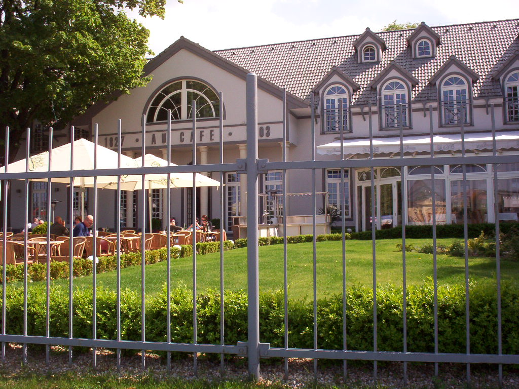 The historic building of Au Café in Bratislava, Slovakia (then Pressburg, Kingdom of Hungary); built in 1827